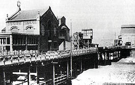 Piron Coal Mine in Saint-Nicolas, Liège, Belgium